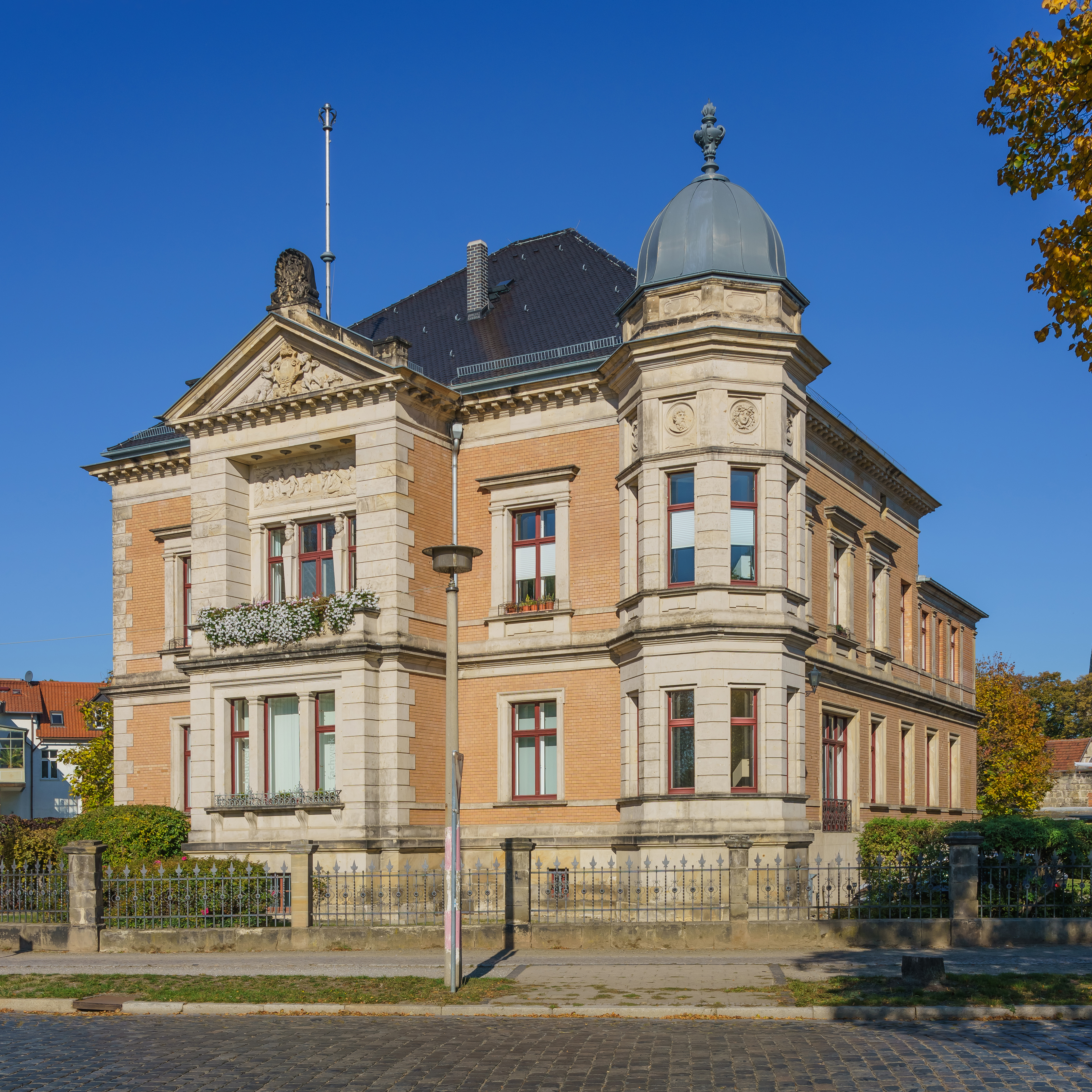 Listed mansion in Quedlinburg, Germany